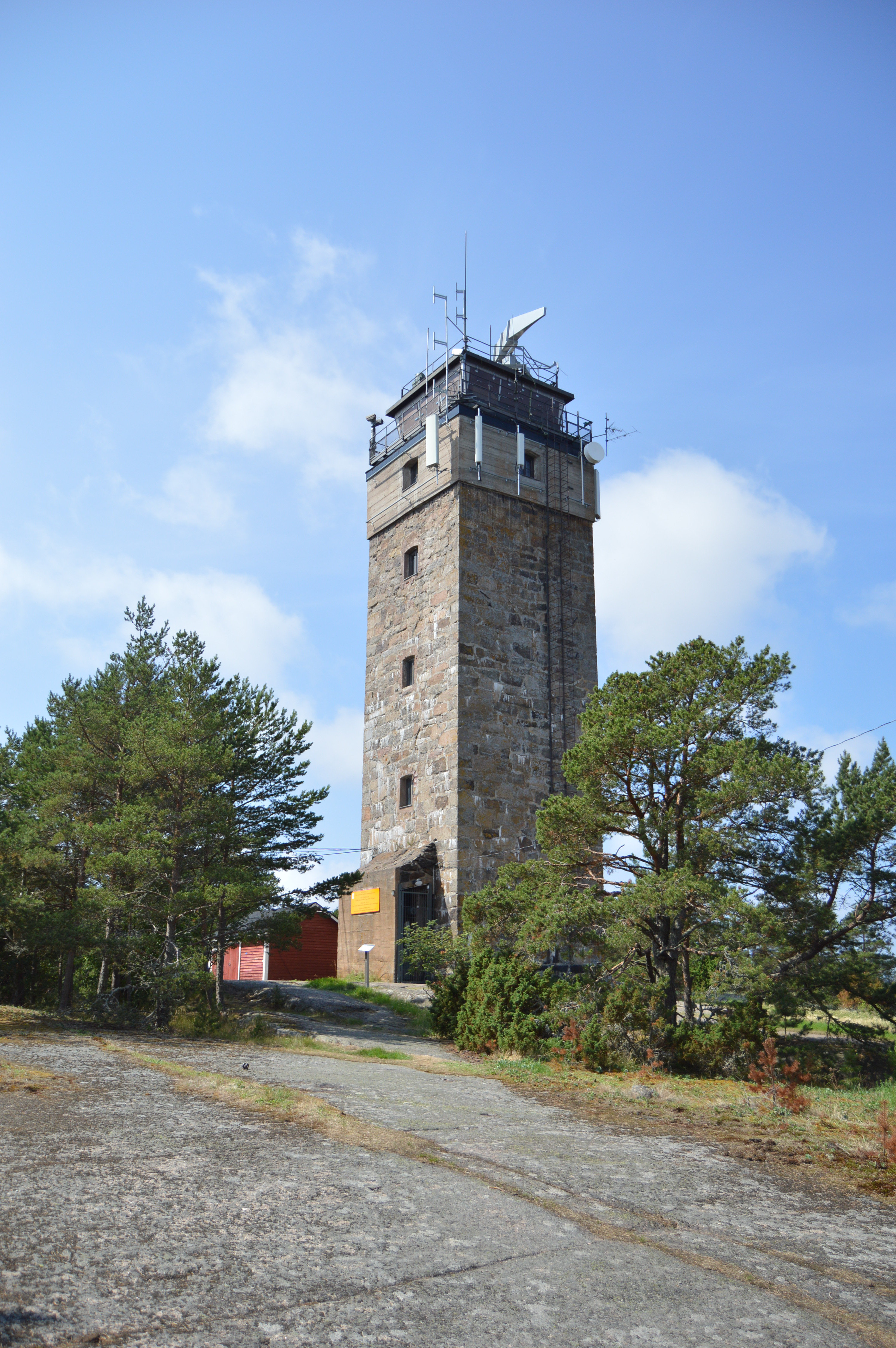 The lighthouse "Puokki" on the Haapasaari island near Kotka, Finland.